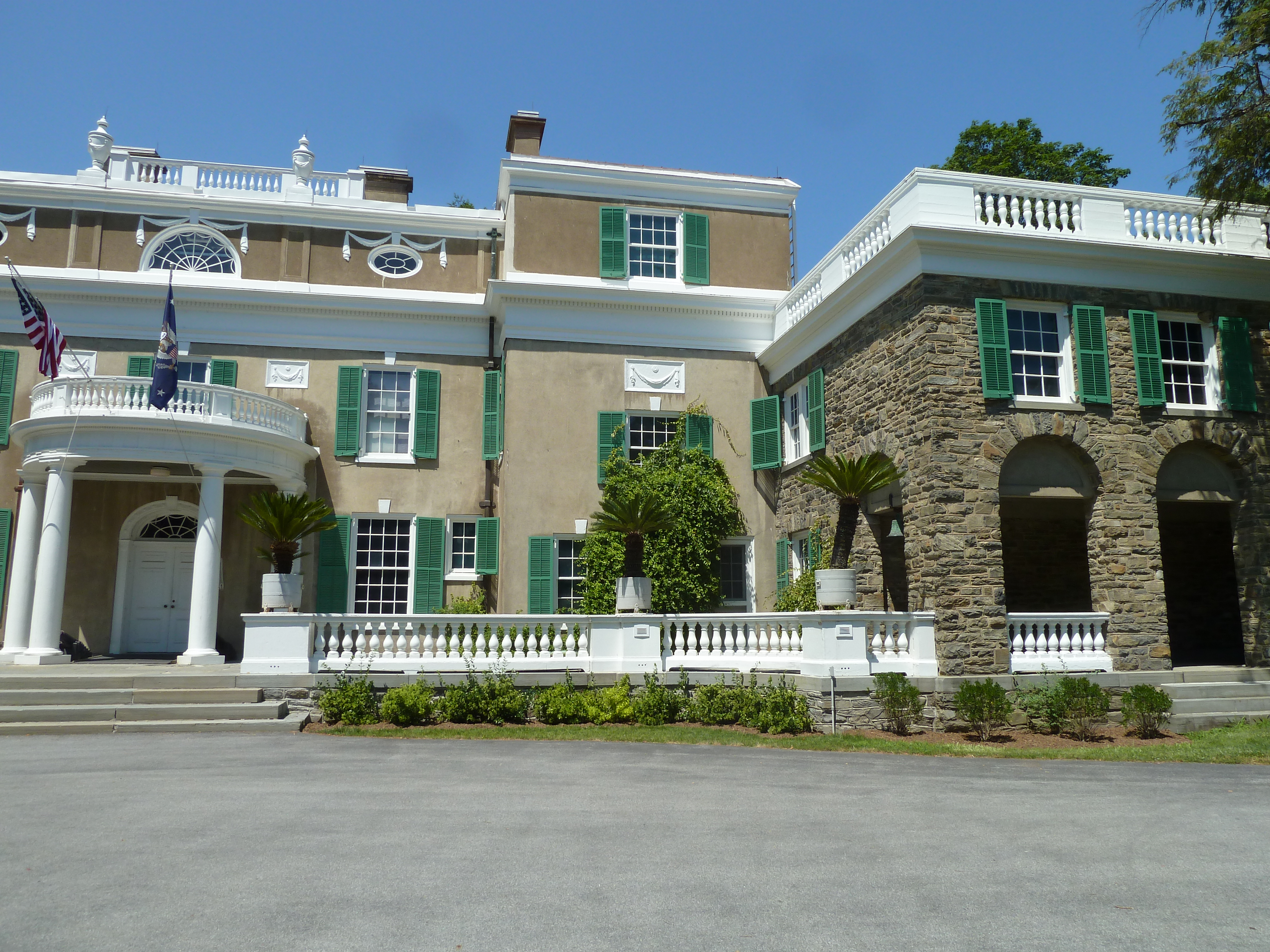 Home of Franklin D. Roosevelt National Historic Site, Hyde Park, New York